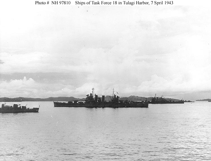 Task force 18,1943,Tulagi harbor